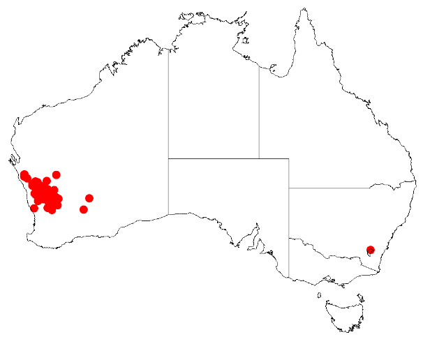 Acacia anthochaera Occurrence data from Australasia Virtual Herbarium downloaded from on 8 December 2018